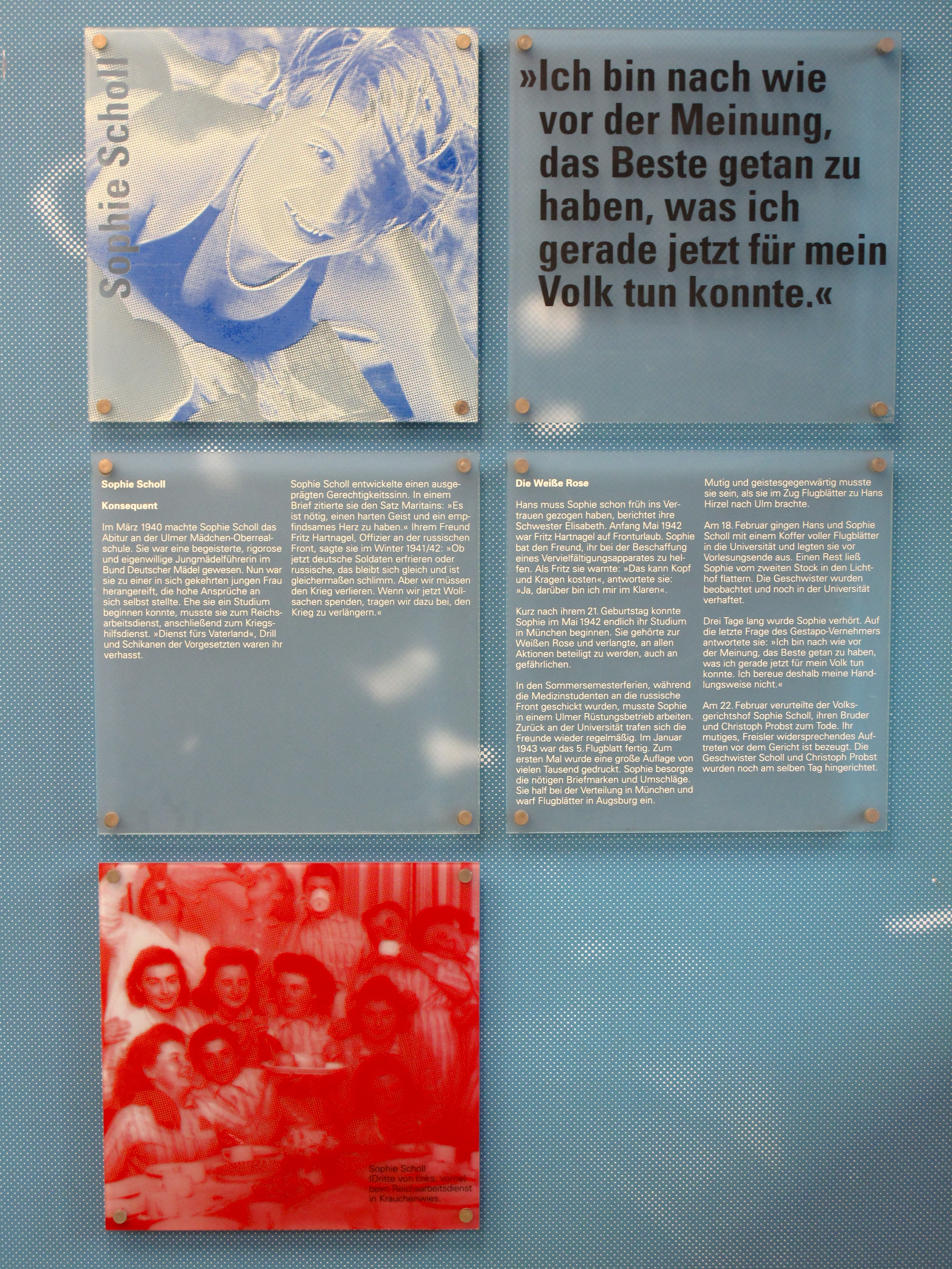 Sophie Scholl in the Ulmer DenkStätte Weiße Rose which is in the foyer of the EinsteinHaus, the headquarters of the Ulmer Volkshochschule (vh Ulm) (Adult Education Centre of Ulm). It is a memorial for young people from Ulm who were in the resistance against the Nazi-Regime between 1933 and 1945 – amoung them also Hans Scholl.